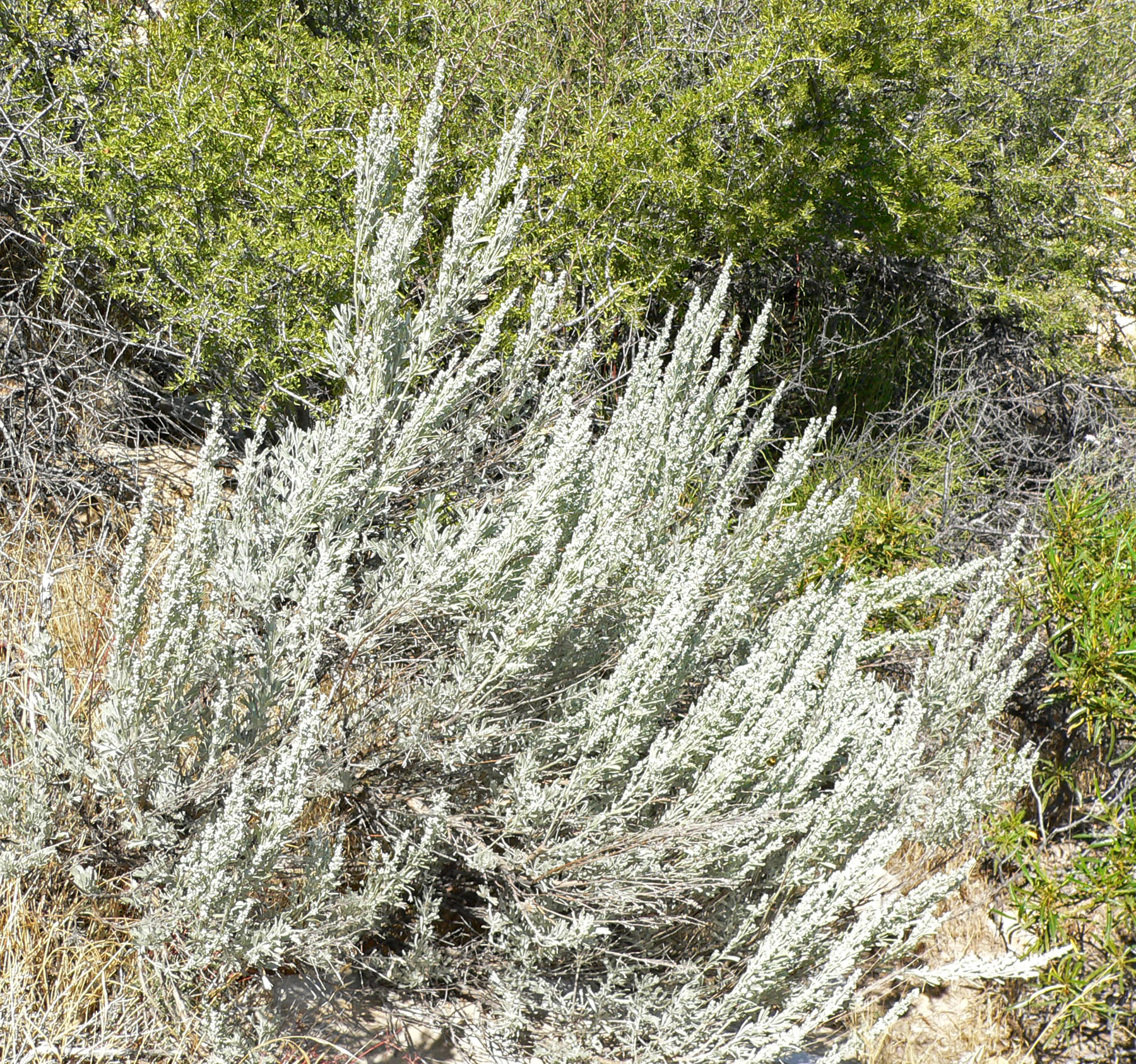 Artemisia tridentata in Red Rock Canyon, Spring Mountains, southern Nevada